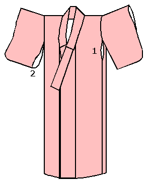 Miyatsuguchi (1) and Furiyatsuguchi (2) of Nagagi, which is one of Kimono, in stylized view.